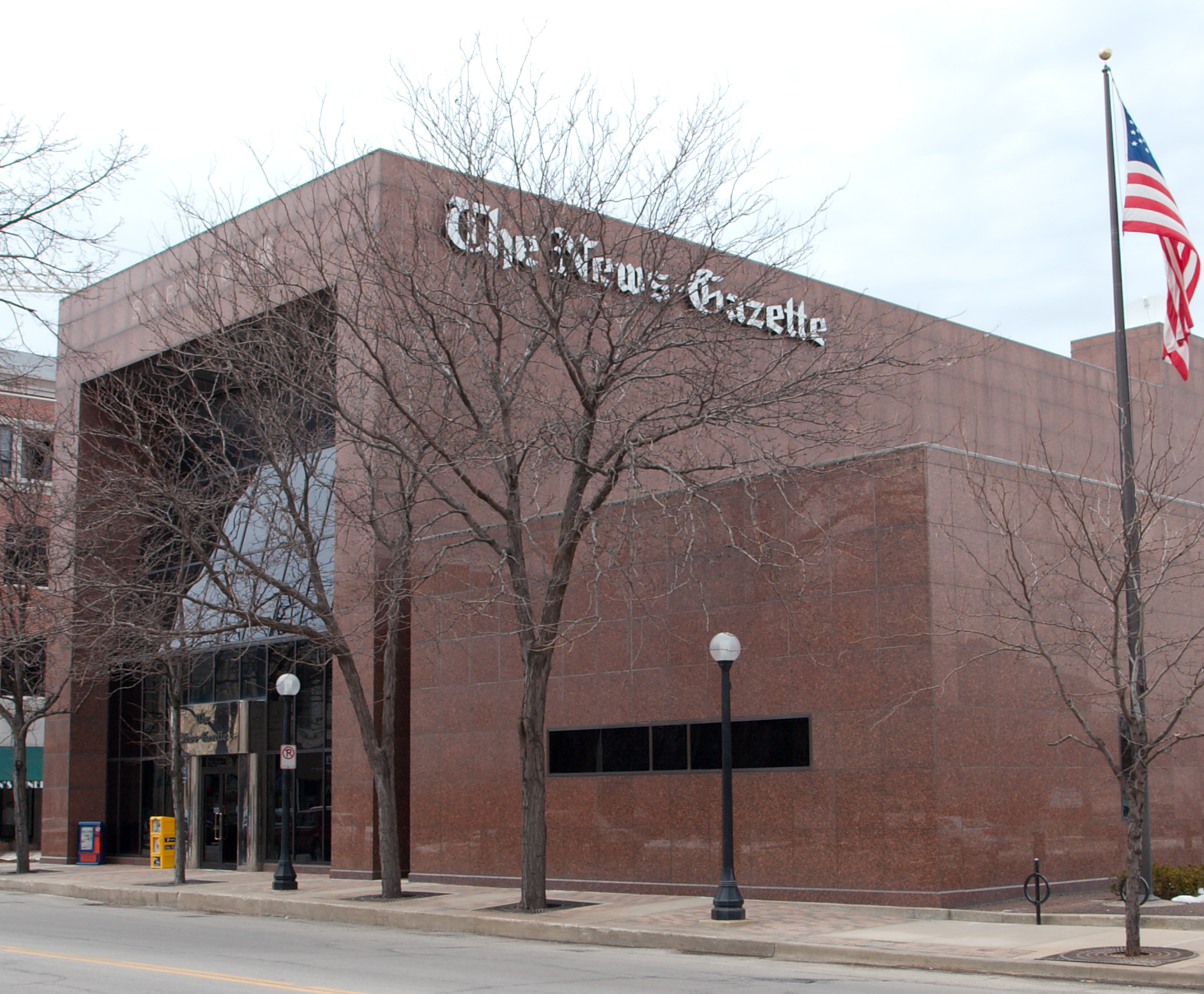 Champaign, IL